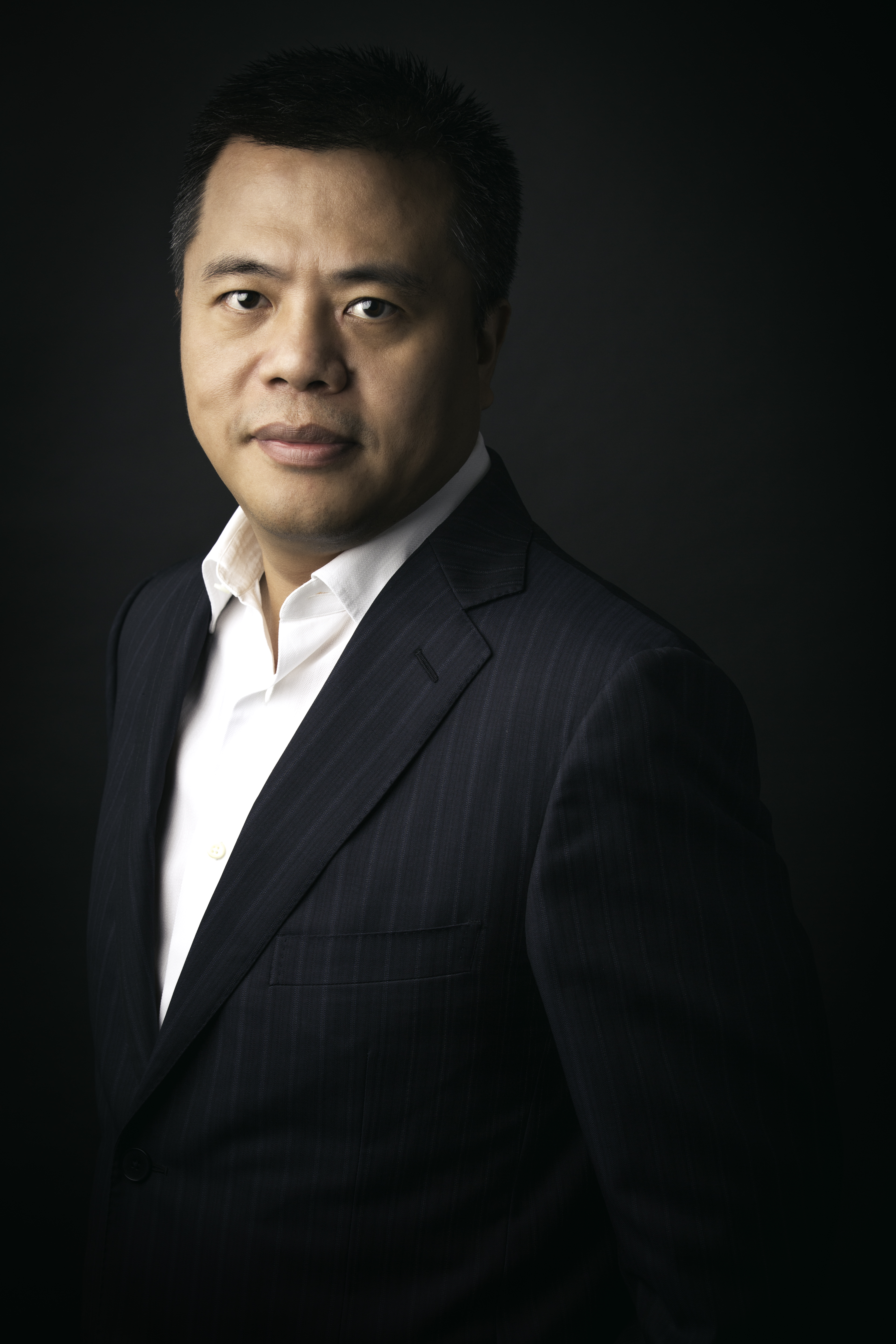 Mr TianQiao Chen, pictured in 2015